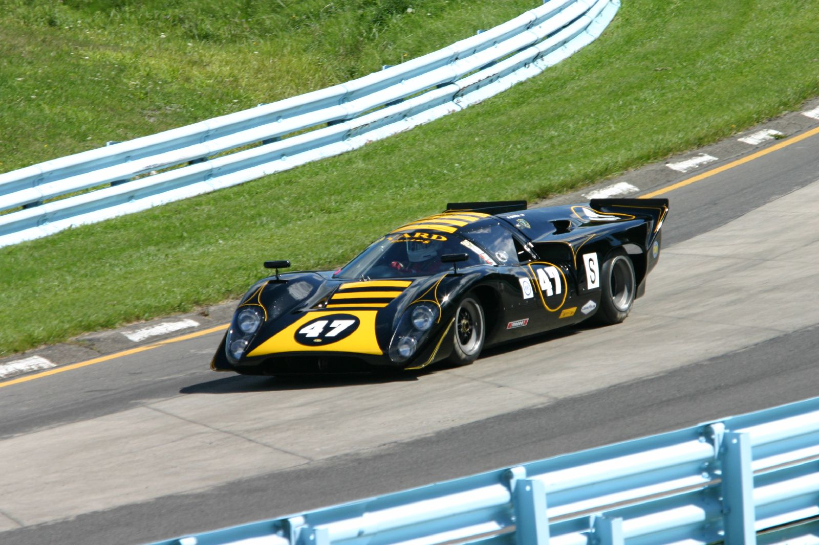 47 - 1969 Lola T70 MkIIIb (377cid) Kenne Bristol Elmhurst, IL